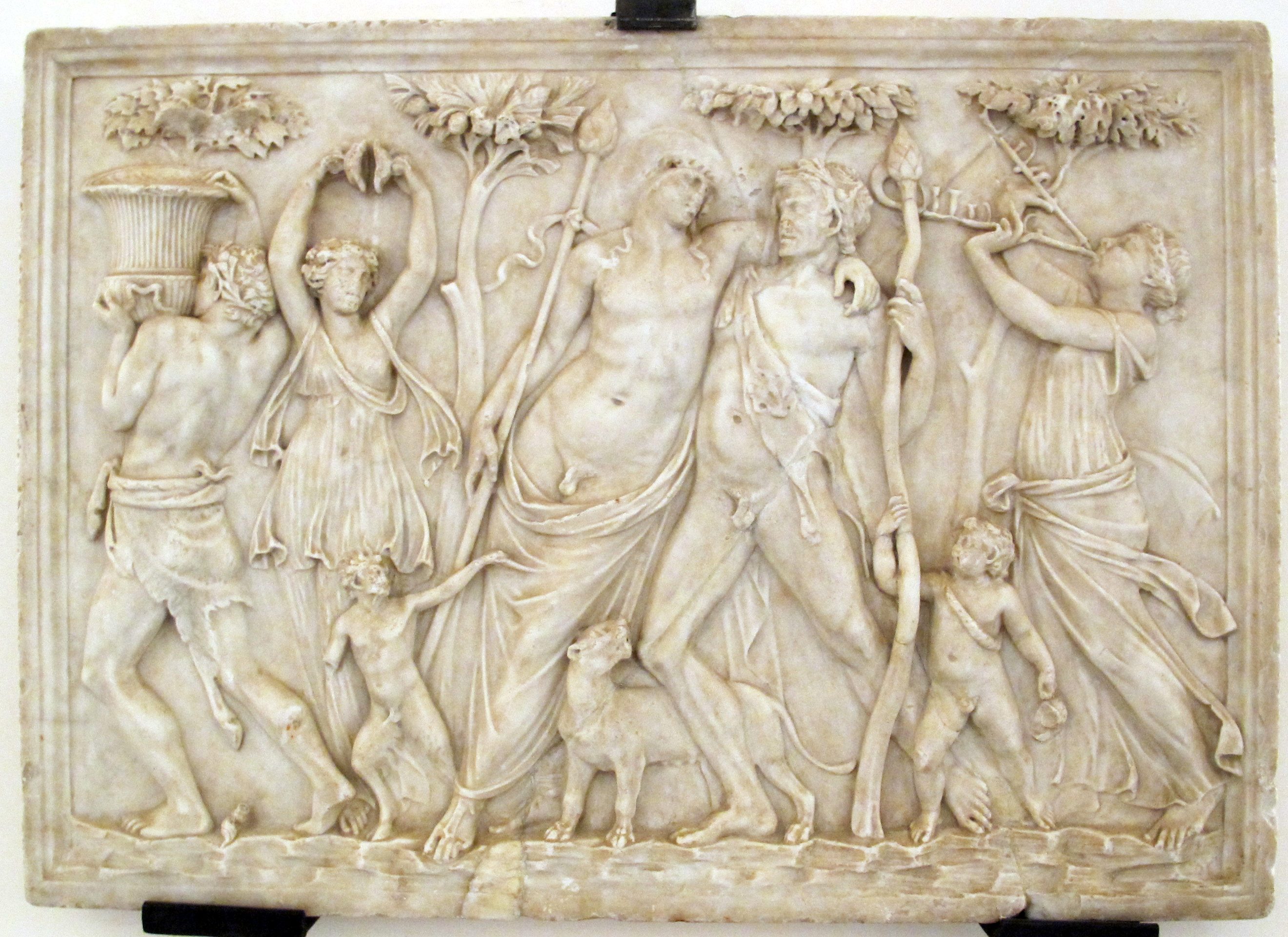 Ancient Roman reliefs in the Museo Archeologico (Naples)